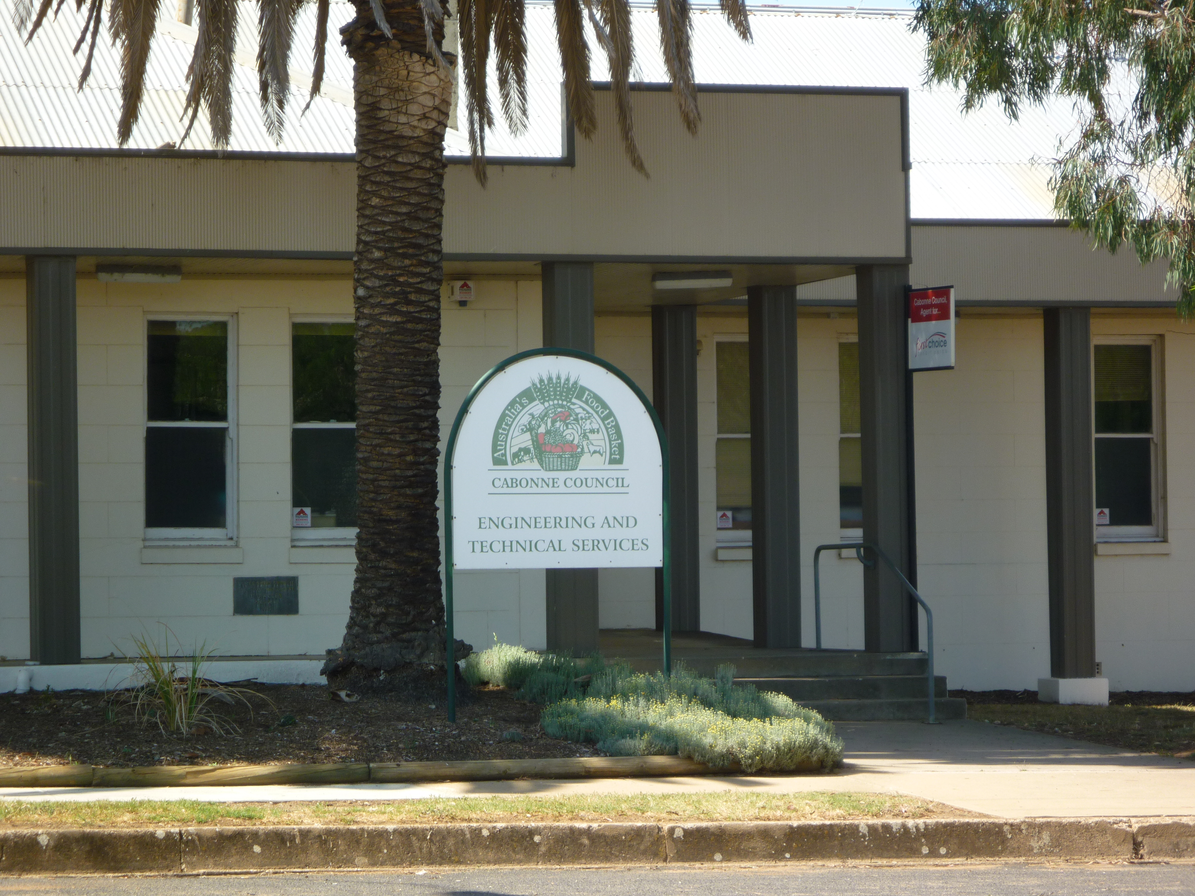 Cabonne Shire Office, Cudal, New South Wales.